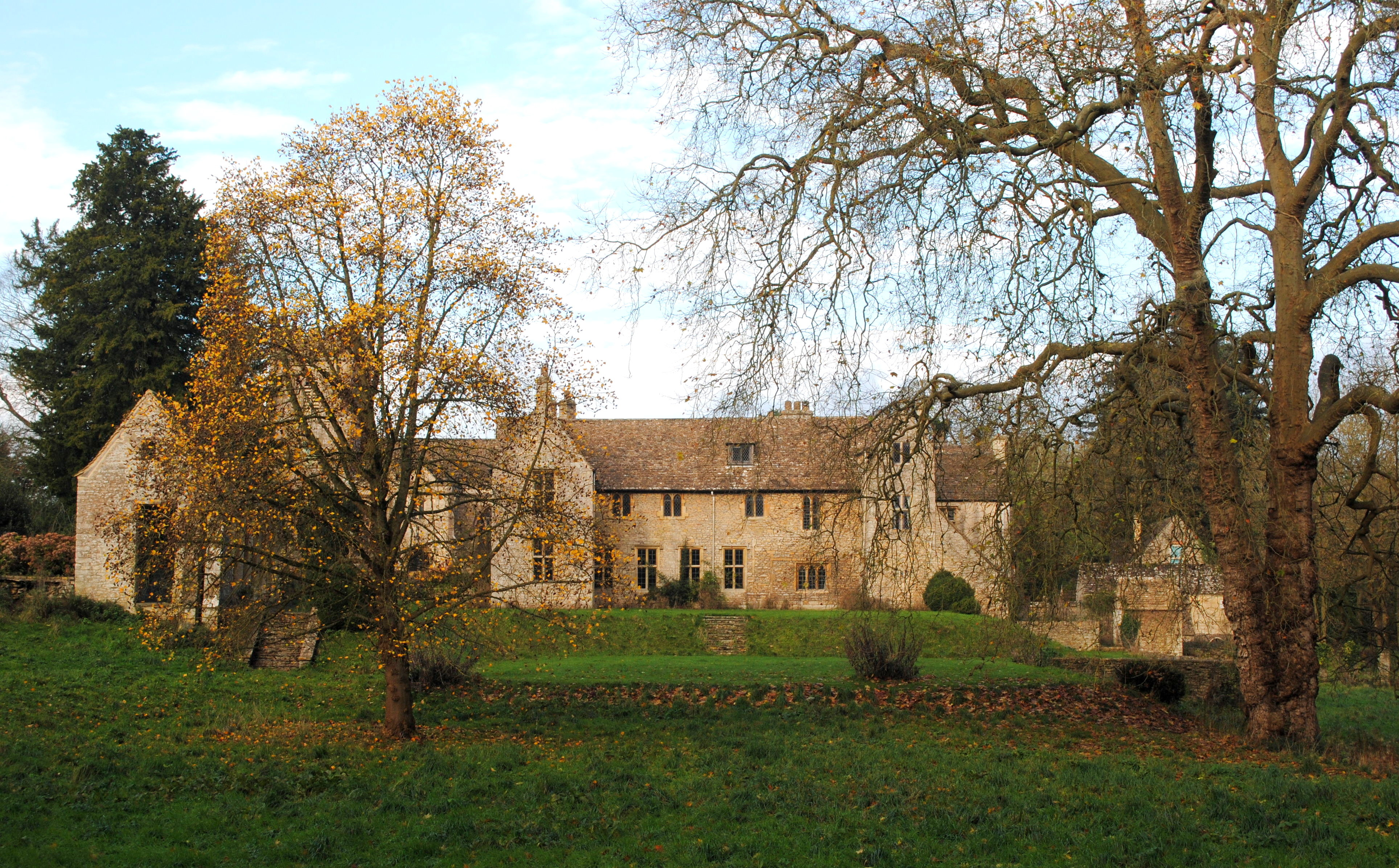 Horton Court, Horton, Gloucestershire 2014